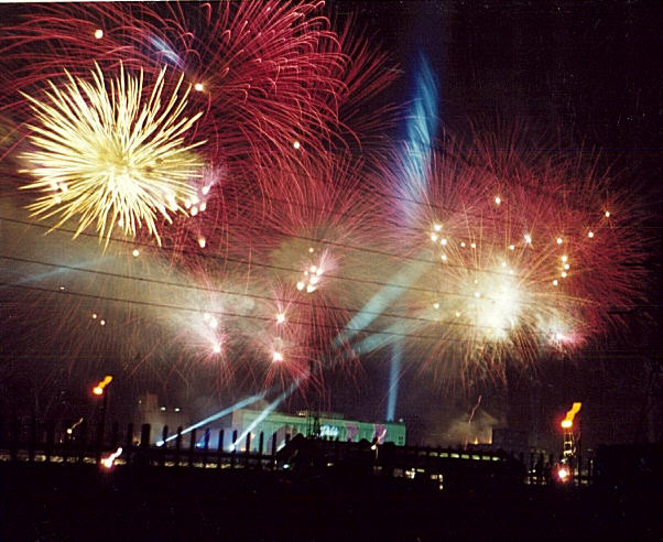 Destination Docklands concert image 1